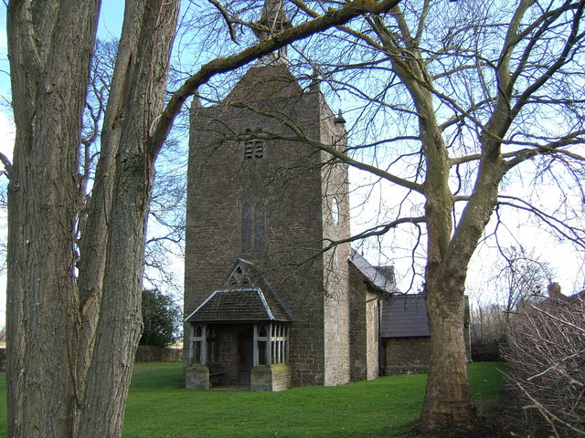 Rotherwas Chapel. Chapel started 1583 by Sir Richard Bodenham, was attached to Rotherwas House demolished 1926.